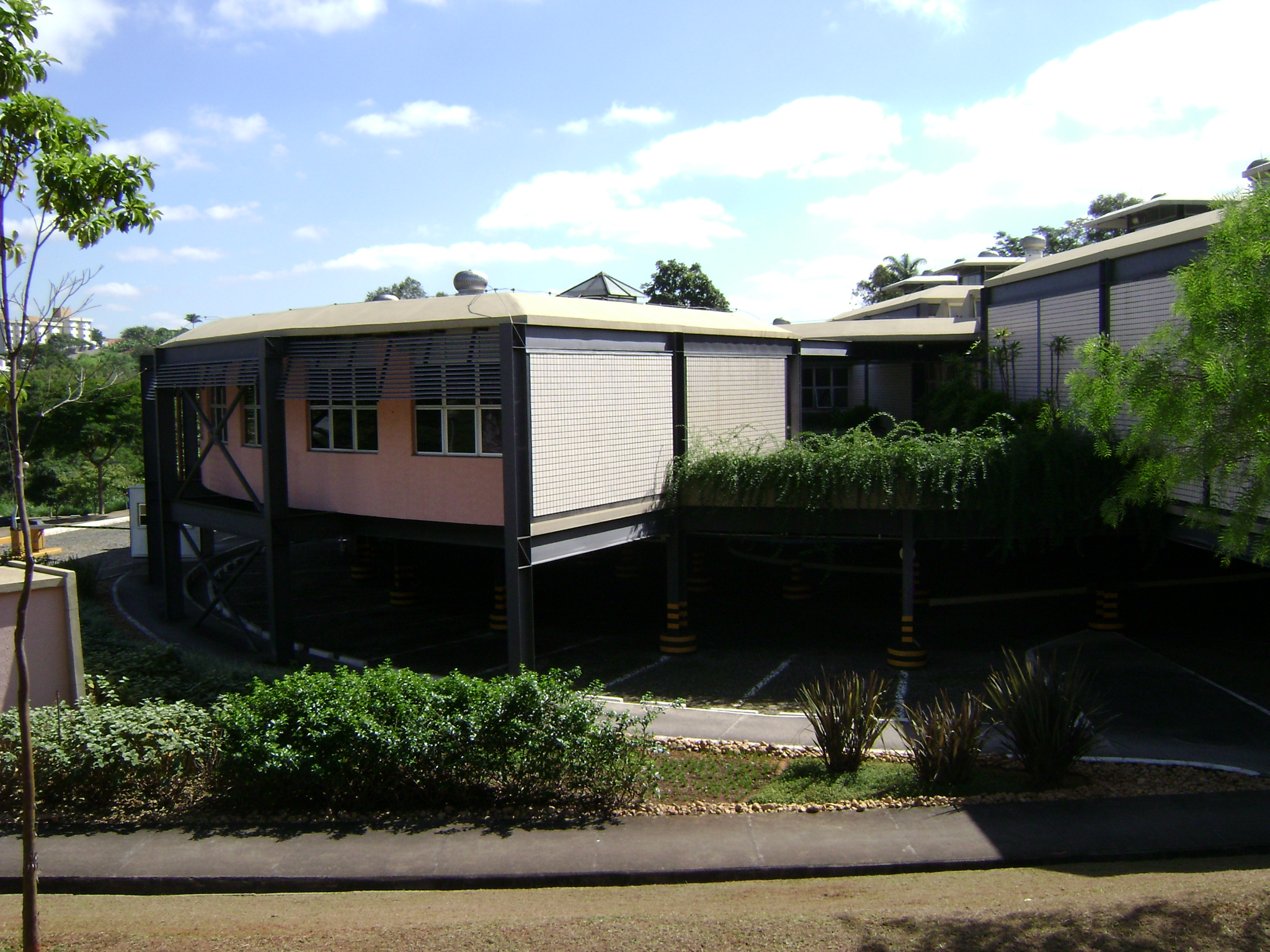 Parte da Escola de Odontologia da UFMG.